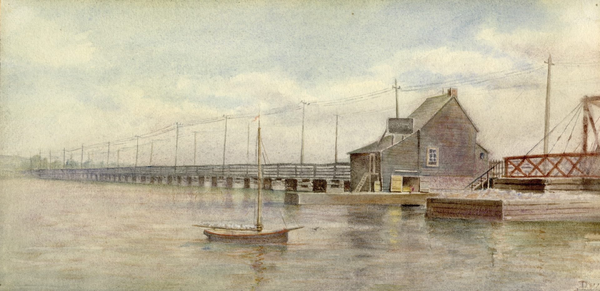 Cataraqui Bridge and Toll House. Image portrays the early bridge over the Cataraqui River, Kingston, Ontario. Watercolour, touches of opaque white, over pencil. Laid down on cardboard.